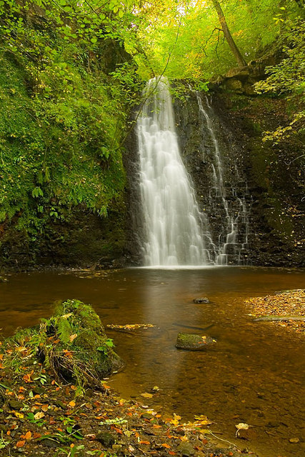 Falling Foss A delightful area for walking including this wonderful waterfall.